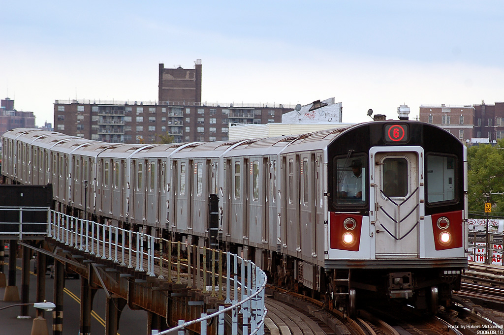 A New York City Subway 6 train of R142A stock is seen approaching Parkchester station in the Bronx.